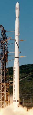 Scout G1 rocket with RADCAL satellite.